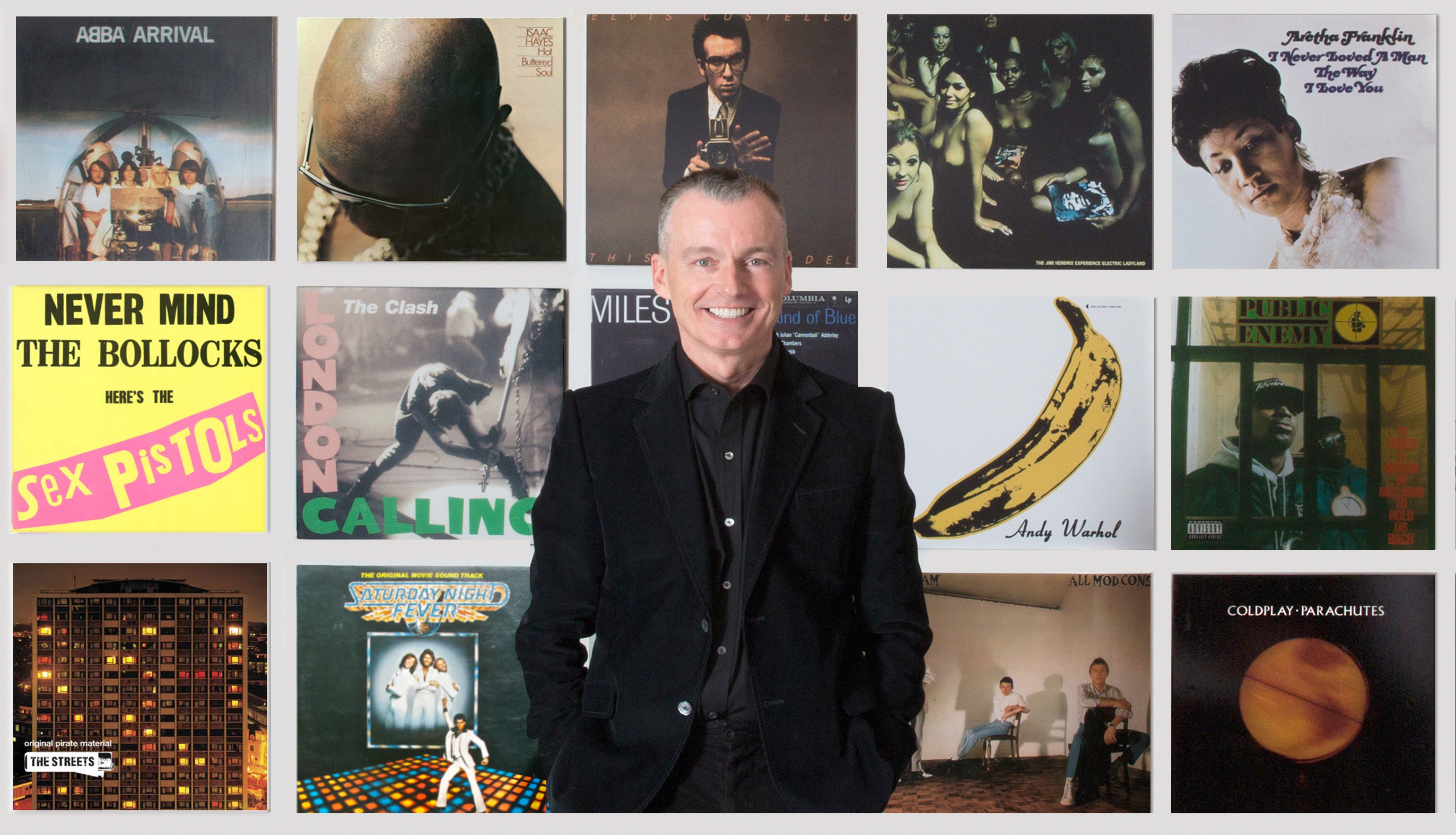 Paul Connolly in the boardroom of Universal Music Publishing